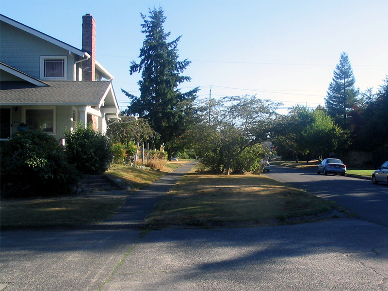 A residential neighborhood of North Tacoma Category:Tacoma, Washington